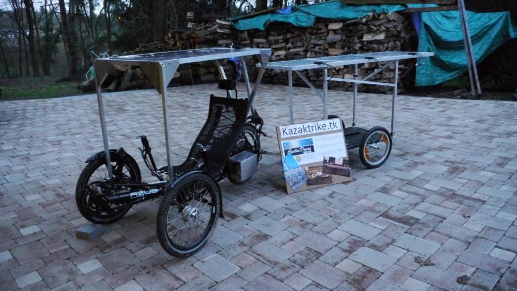 Recubent Trike PV panels powered